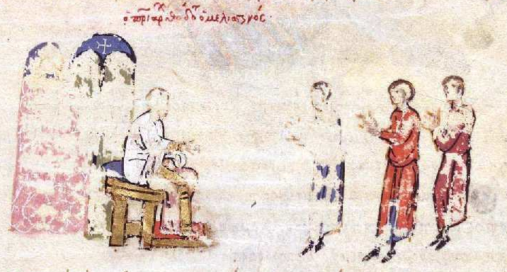 Patriarch Theodotos Melissenos propagates Iconoclasm